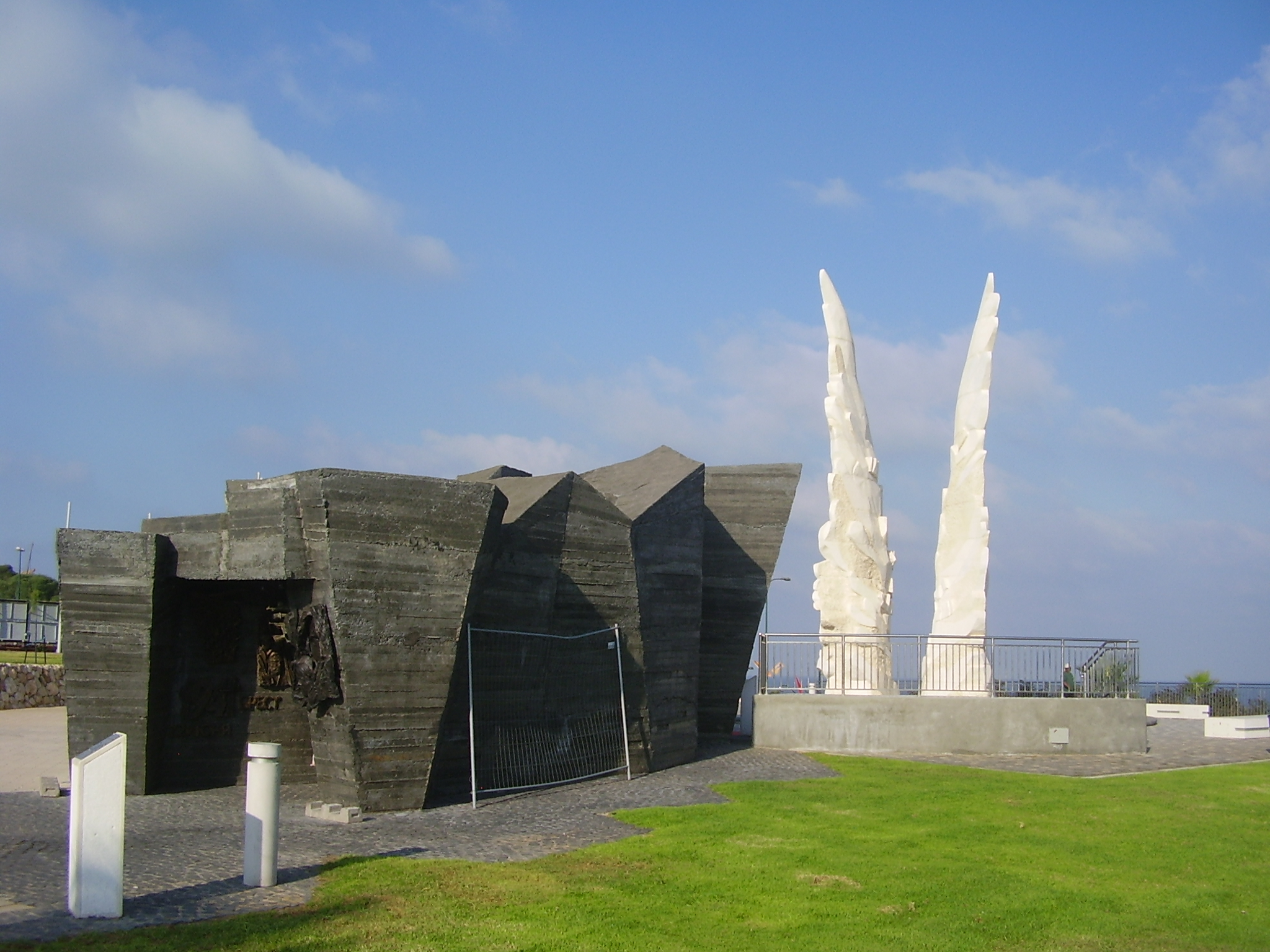 Victory Monument in Netanya